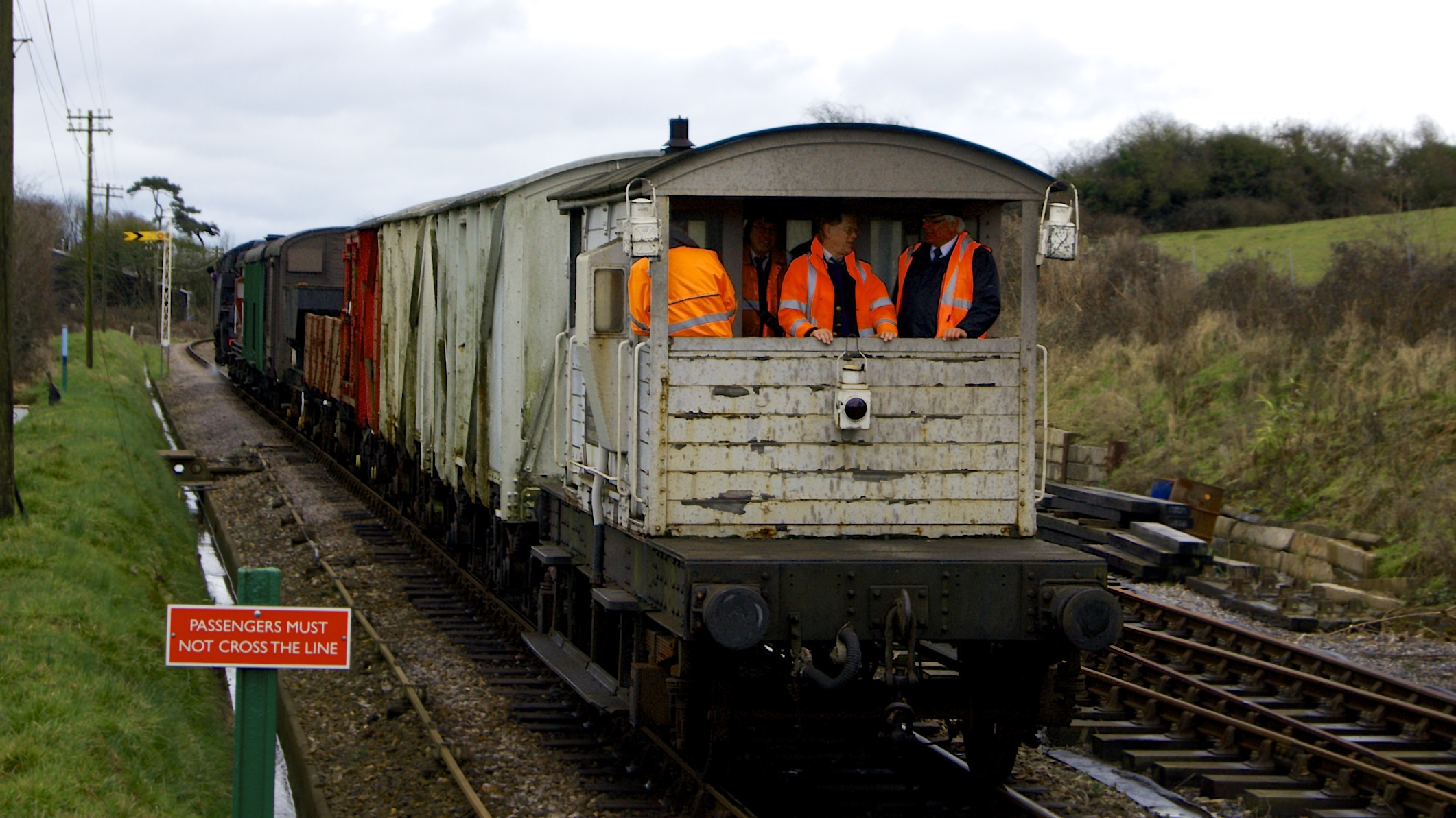 Swanage Railway BR Standard Class 4 80104 passes through Herston Halt.